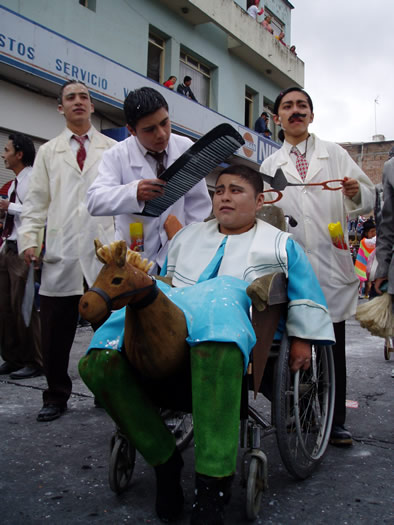 Castañeda Family's Parade 2006. Blacks and Whites Pasto Carnival